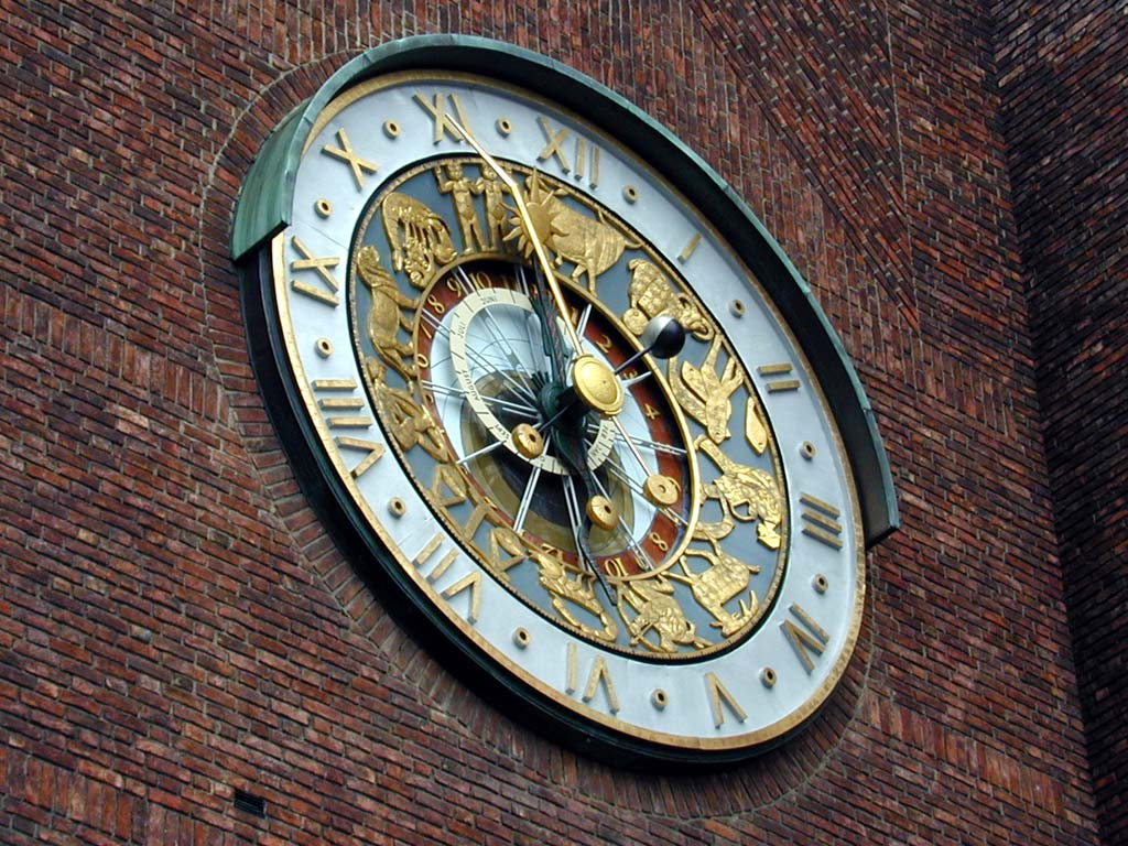 Close-up of the elaborate clock on the north side of the Oslo City Hall.